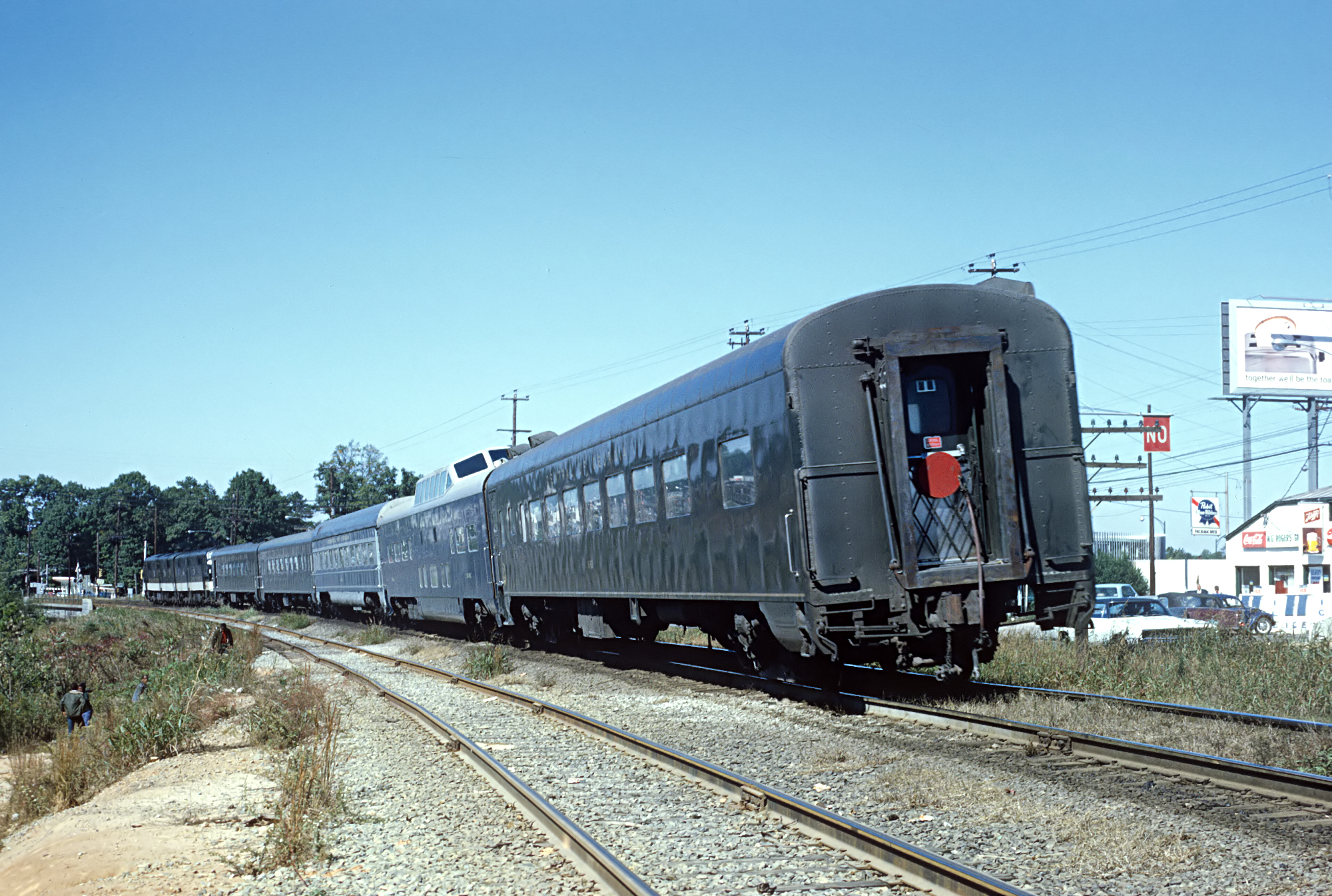 Central of Georgia Ry Train 107, The Nancy Hanks II, near Atlanta, GA on October 1, 1968. Note ex-Wabash-N&W dome car. I have not found Roger's photo of the head end of the train. A Roger Puta Photograph